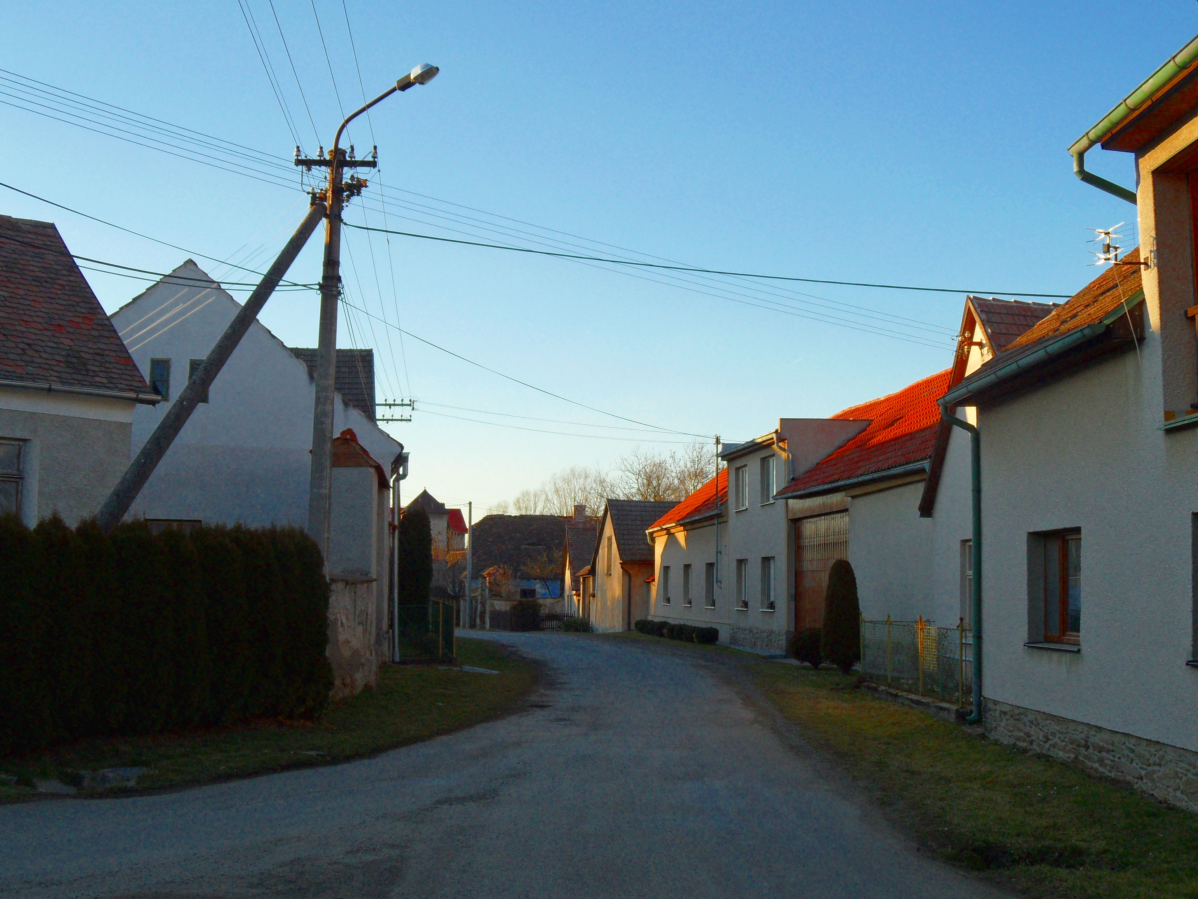 Sirákovice C. Houses along Main Road (View from Crucifix), Havlíčkův Brod District, the Czech Republic.